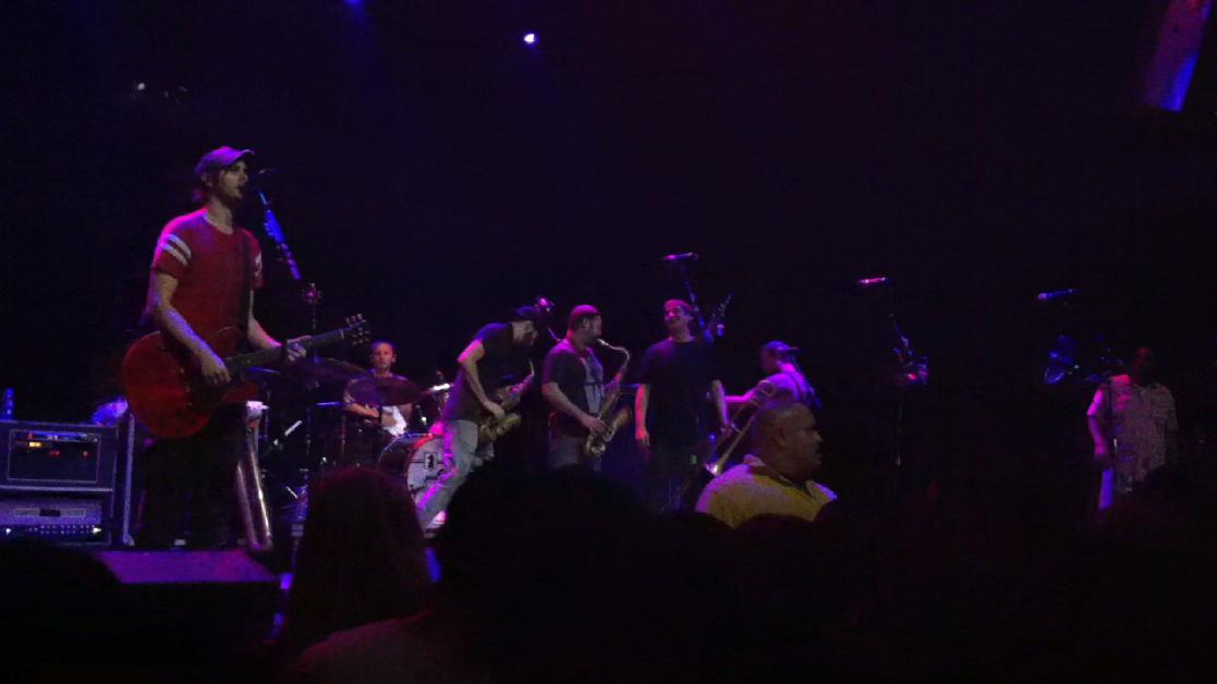 Image for Streetlight Manifesto